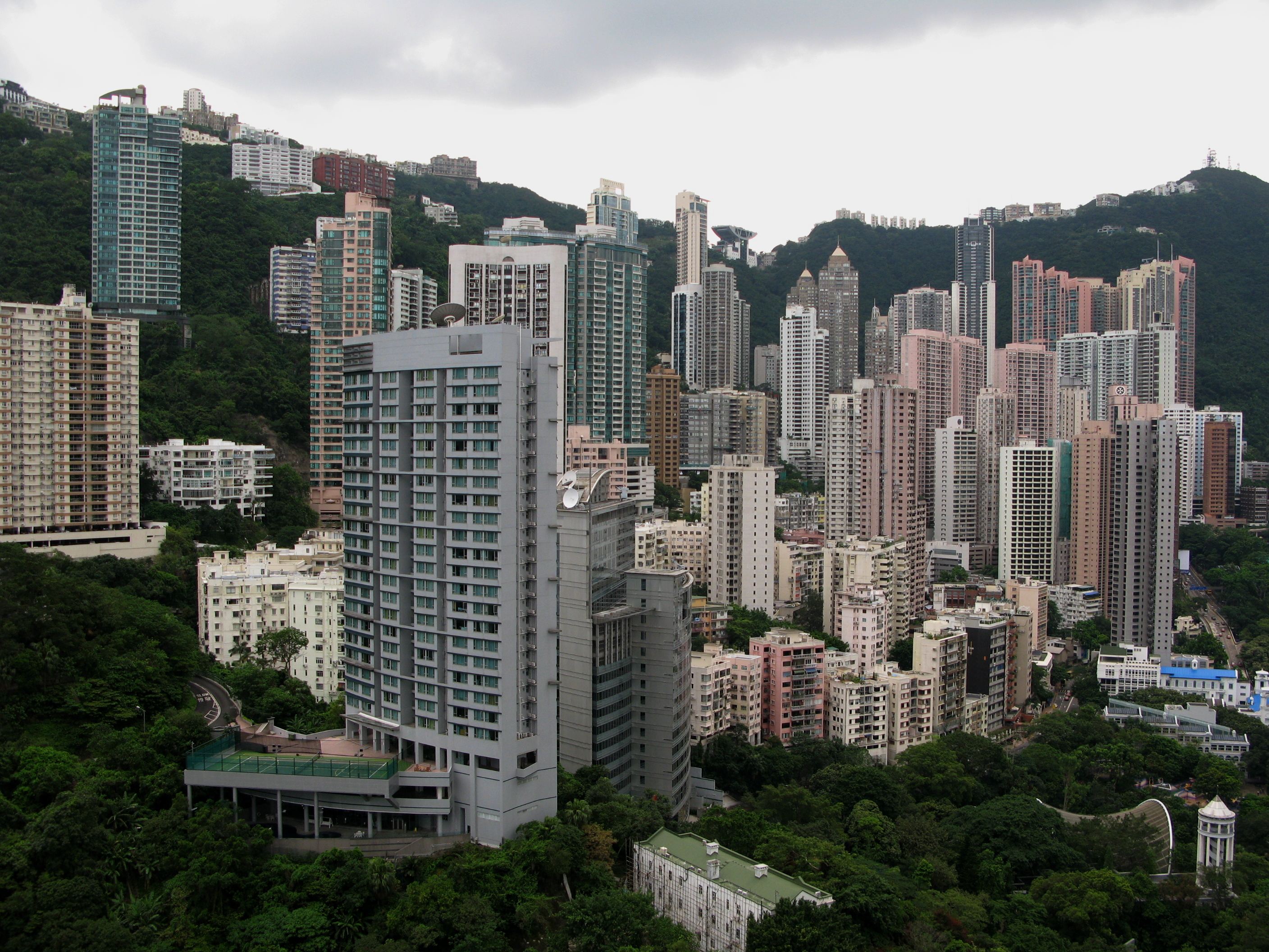 Apartment Blocks in Mid-levels 中半山住宅群